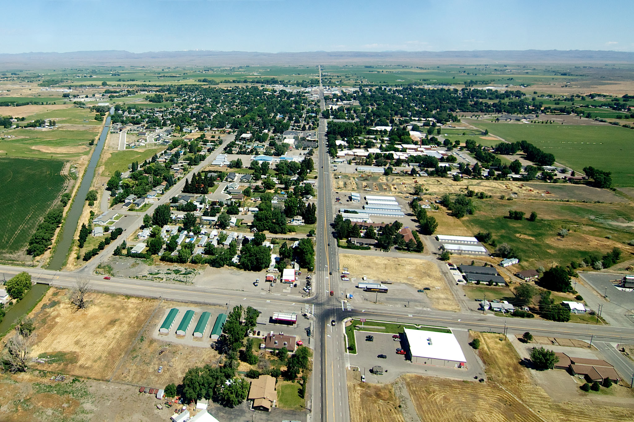 An aerial view of Gooding, Idaho, from the South. The road in the middle of the photo is Highway 46. This was shot from a Cessna P206. Processing notes: This photo was slightly rotated, cropped, had slight exposure adjustments, and the plane's wing was removed from the very top of the image. Everything from the mountains (top of the picture) down to the bottom of the photo is untouched.